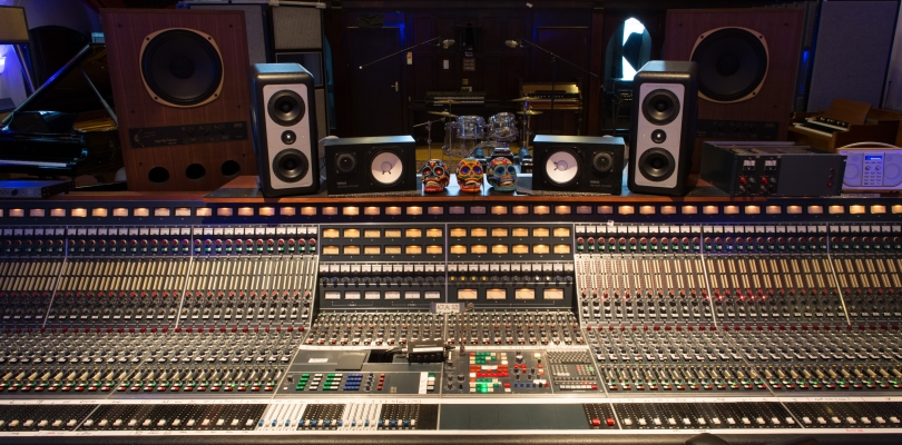 EMI Console